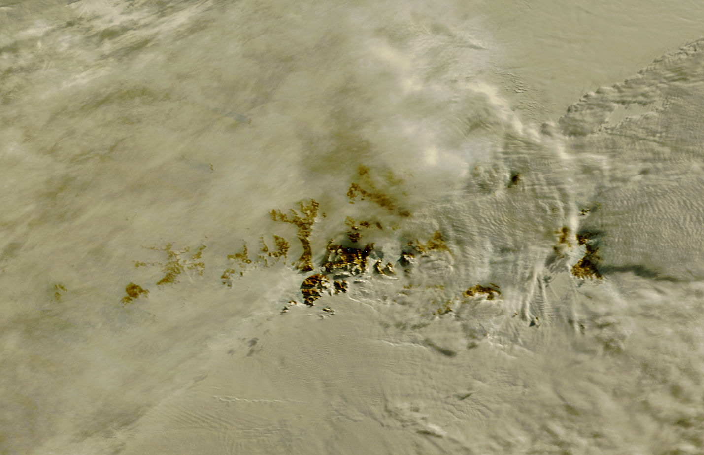 On September 13 at 07:10 UTC (3:10 a.m. EDT) the Moderate Resolution Imaging Spectroradiometer or MODIS instrument aboard NASA's Terra satellite captured the sunlight and shadows over ice over Princess Ragnhild Coast, Antarctica during the partial solar eclipse. Sunlight can be seen over the Antarctic while the Southern Ocean (top) is darkened. The Princess Ragnhild Coast is part of the Queen Maud Land coast. Image Credit: NASA Goddard MODIS Rapid Response Team/Jeff Schmaltz Text: NASA Goddard Space Flight Center/Rob Gutro NASA image use policy. NASA Goddard Space Flight Center enables NASA’s mission through four scientific endeavors: Earth Science, Heliophysics, Solar System Exploration, and Astrophysics. Goddard plays a leading role in NASA’s accomplishments by contributing compelling scientific knowledge to advance the Agency’s mission. Follow us on Twitter Like us on Facebook Find us on Instagram